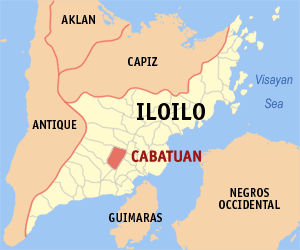 Map of Iloilo showing the location of Cabatuan